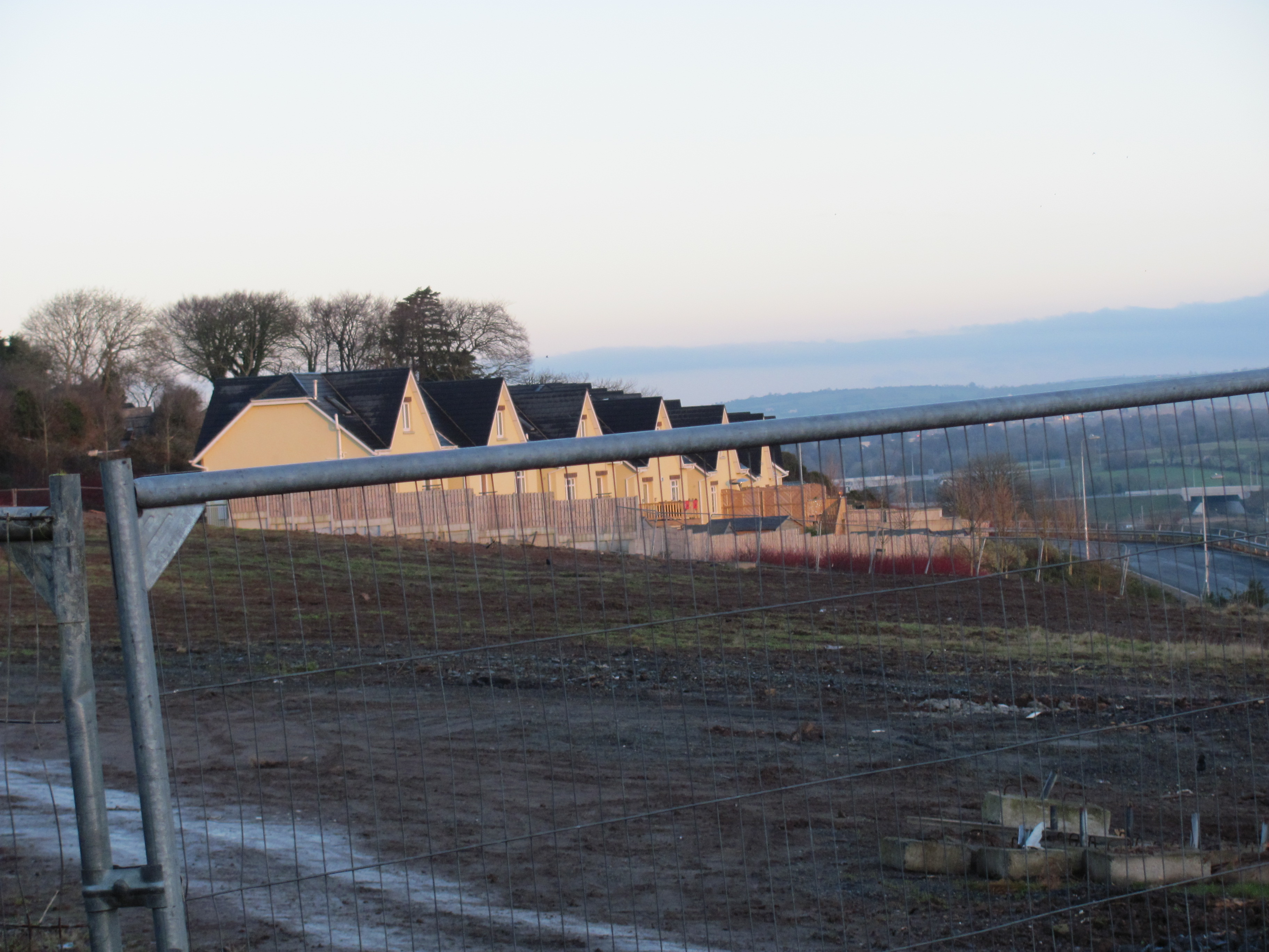 This is a row of newly built houses in the Bilberry area of Waterford City